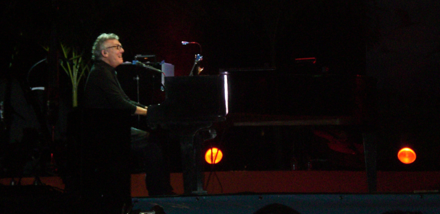 Venezuelan musician Ilan Chester during a concert tribute to Simón Díaz.